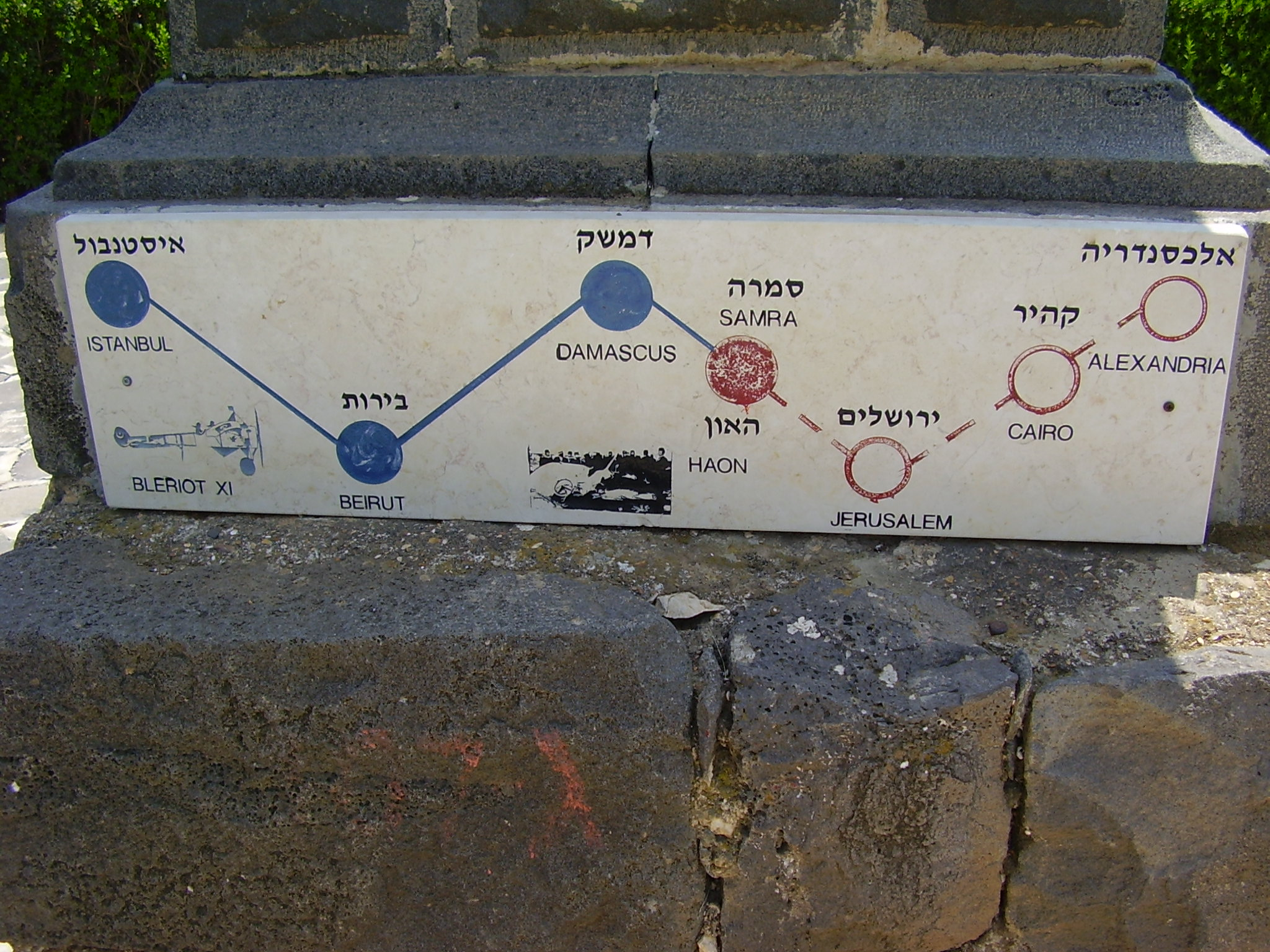 Turkish pilots memorial near Ha'on